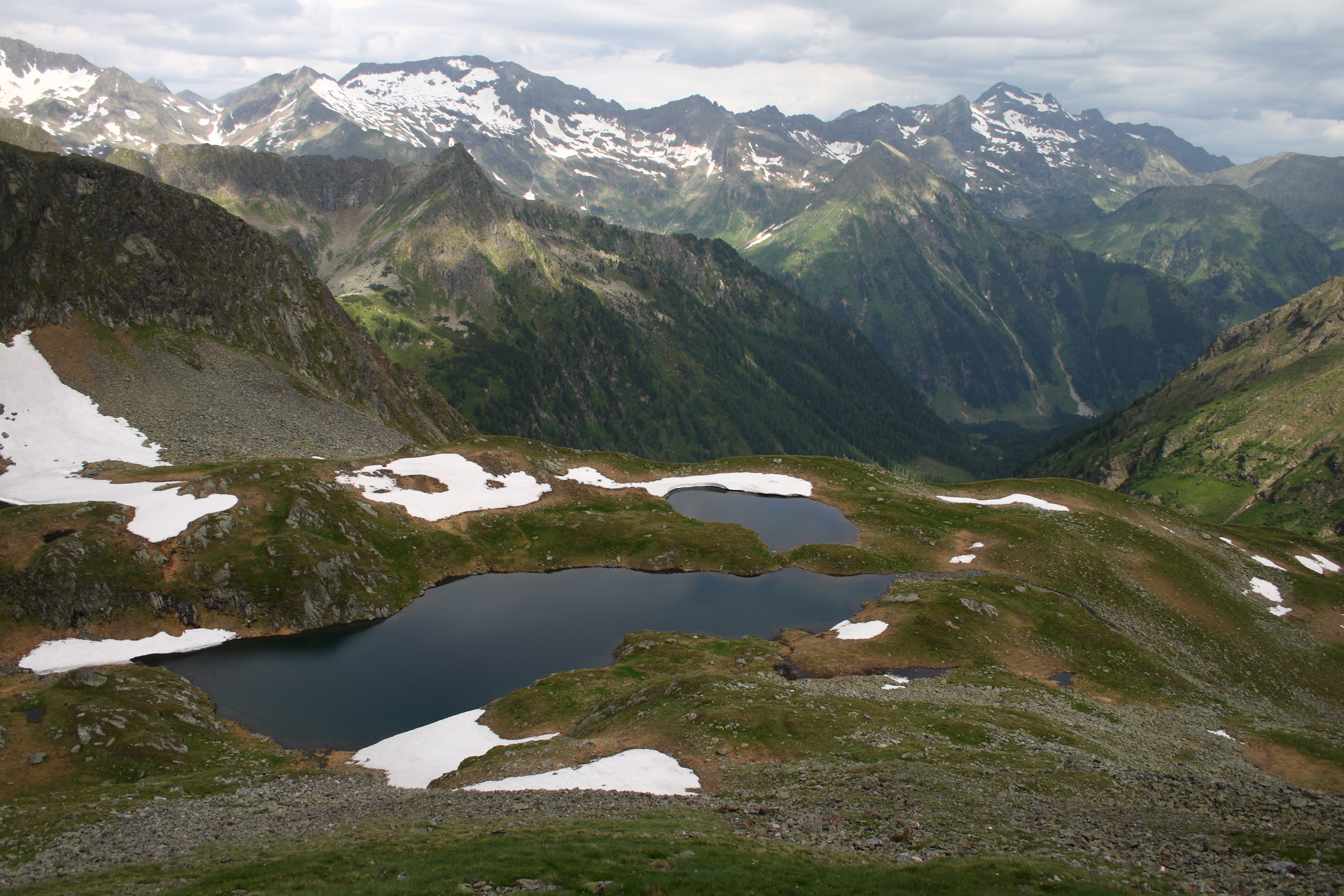 Hüttkarseel 2136 m, Kleinsölk, Styria, Austria